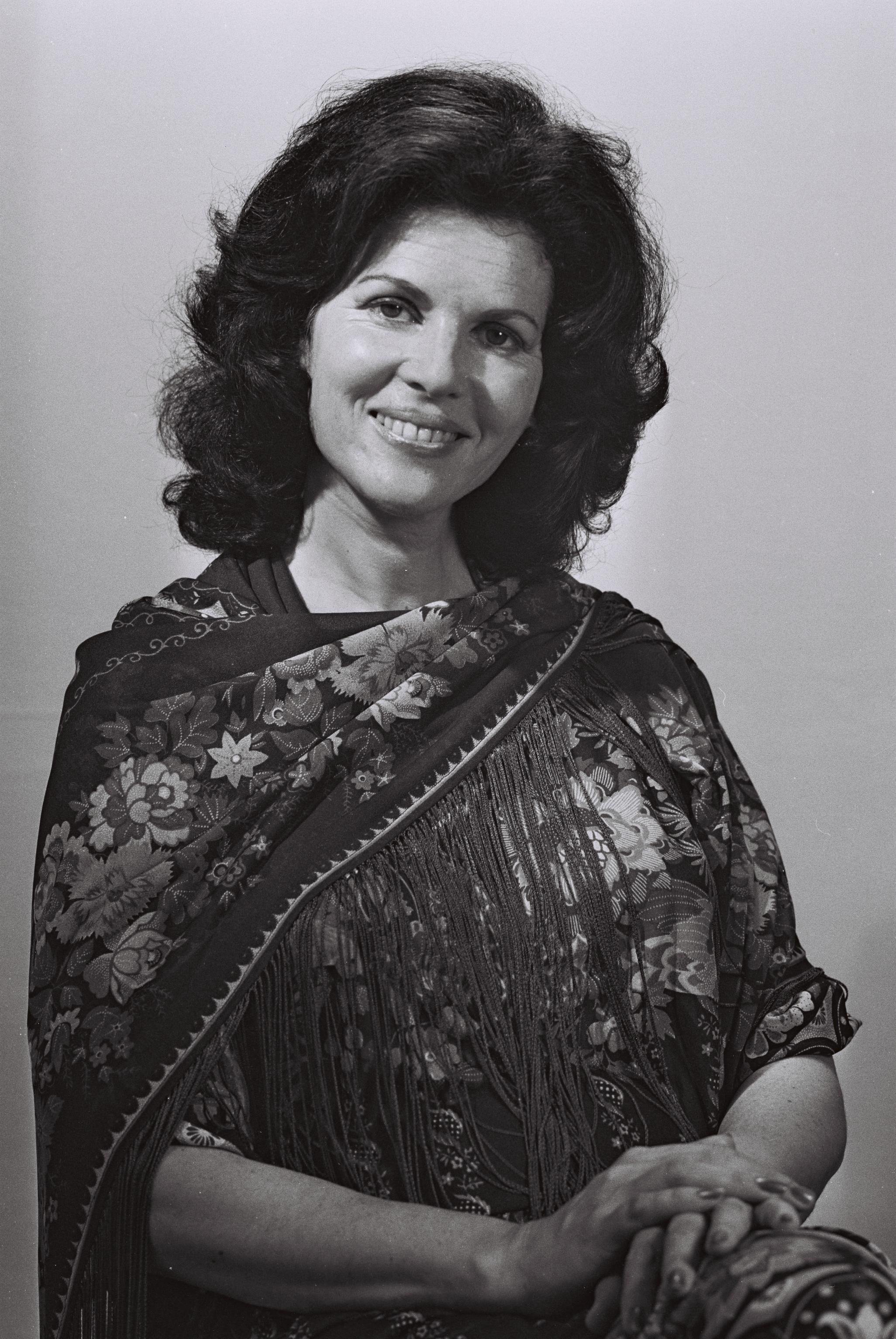 Mrs. Ophira navon, wife on the 5th PRES. Itzhak Nabon (01/05/1978). גב' אופירה נבון, אישתו של הנשיא החמישי, יצחק נבון Photo: David Eldan (1914–1989) Alternative names דוד אנדי אלדןDescriptionIsraeli photographerDate of birth/death 1914 1989Location of birth/death Austria IsraelAuthority control : Q28732278 VIAF: 308269478 NLI: 001447893 creator QS:P170,Q28732278 .